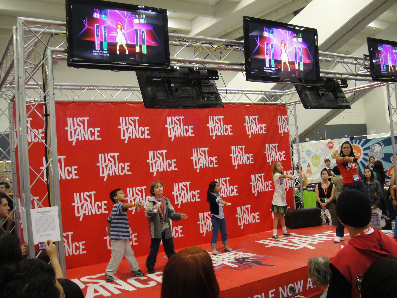 Kids are dancing on the track Hot 'n Cold by Katy Perry on Just Dance